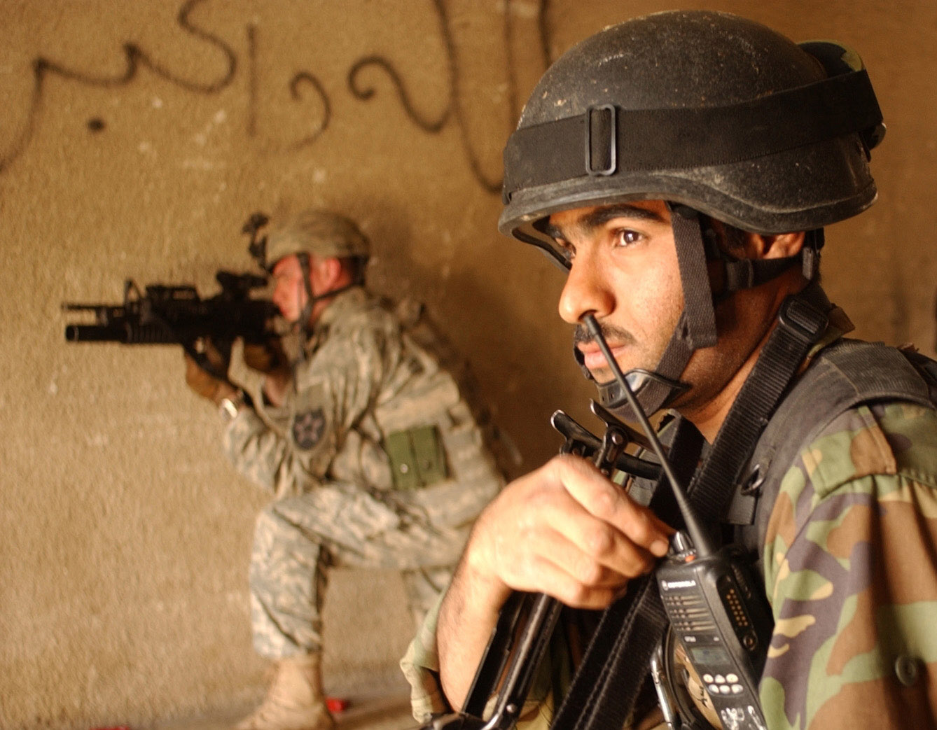 An Iraqi and American soldier conducting a raid in Baghdad. The graffiti on the wall reads "God is great" in Arabic.